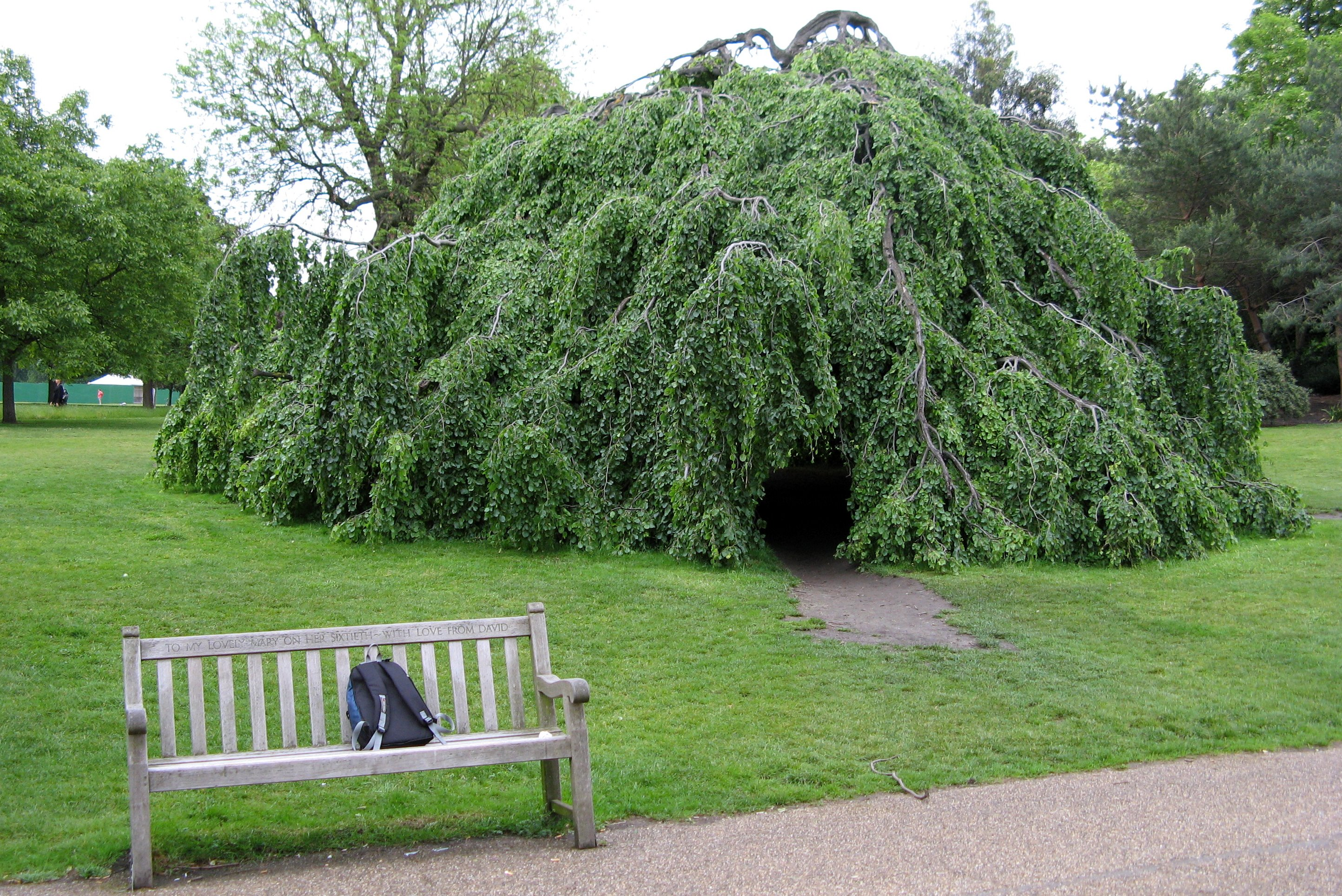 Upside down tree in Hyde Park. 5/17/2007